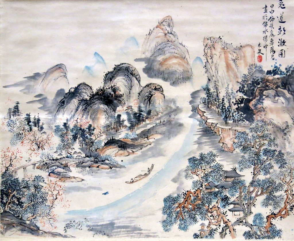 Morning sun at Uji